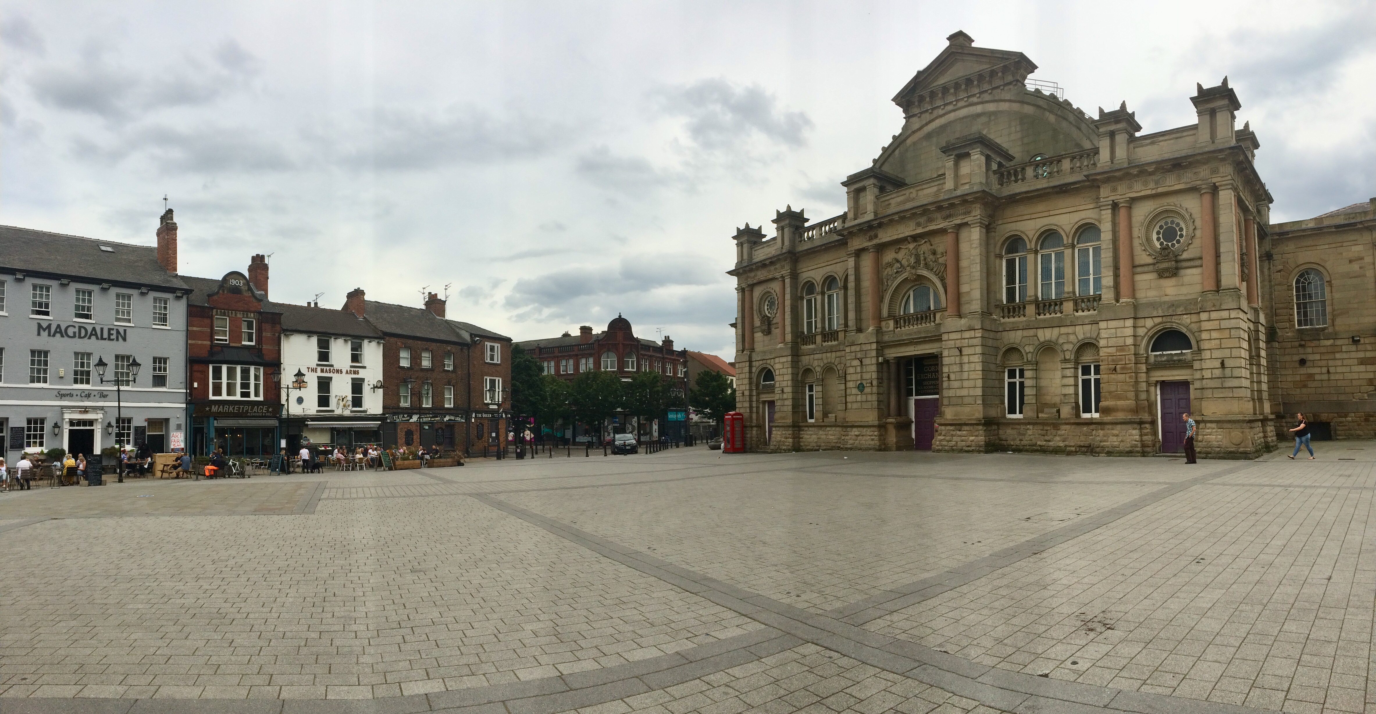 Panorama of Market Place, Doncaster